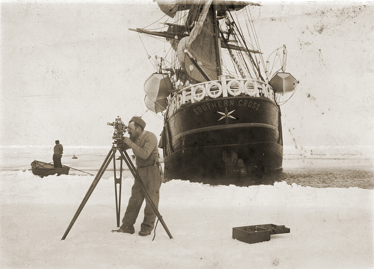 Theodolite work in the ice pack